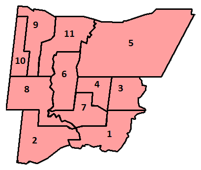 Map of Mississauga's Wards used since 2010.